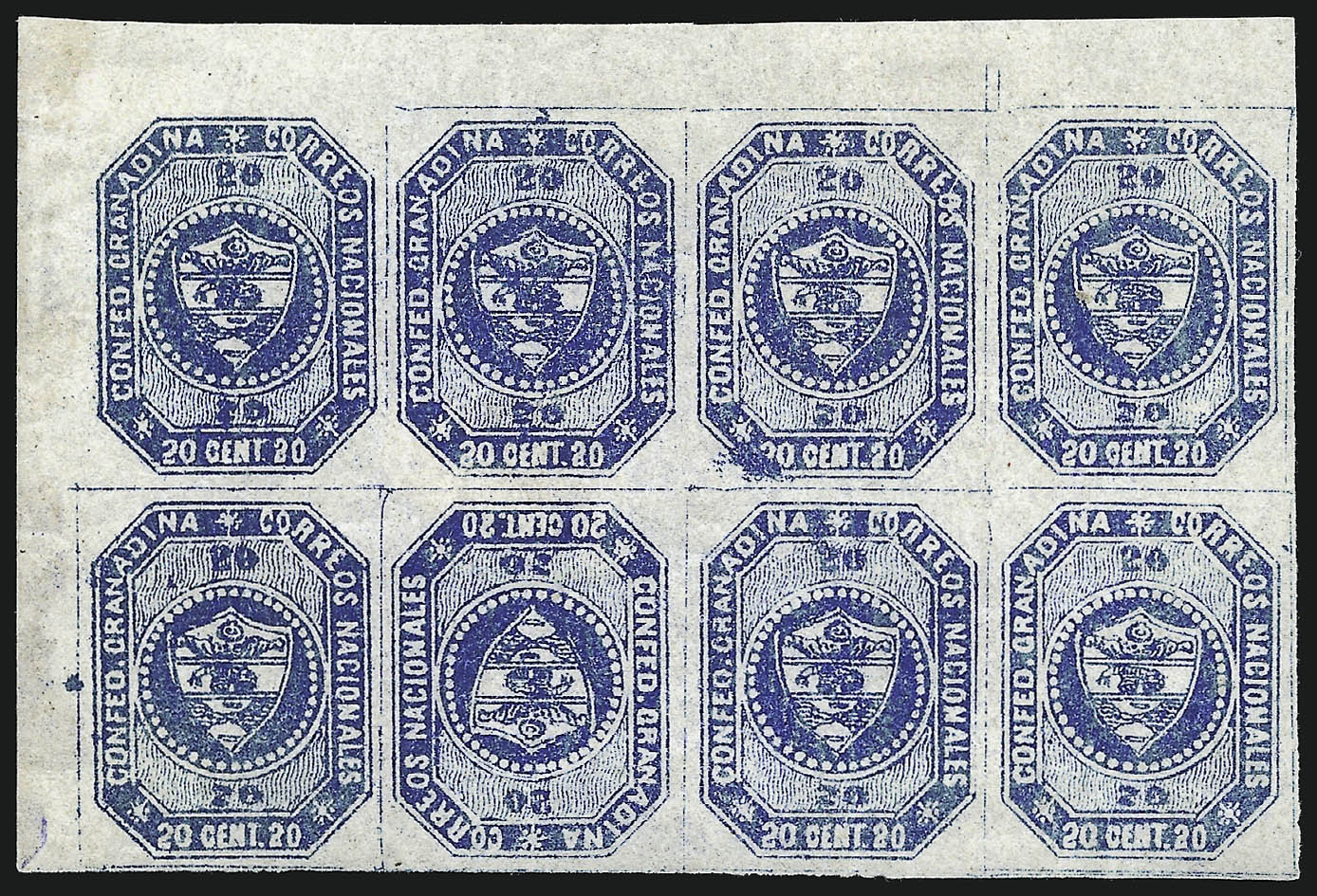 Colombia, Granadine Confederation 1859, 20c Blue, Tete-Beche. Stone A, Positions 1-4, 12-15, block of eight with top left corner sheet margins, containing the inverted transfer, Position 13, forming a tete-beche multiple with adjoining stamps. One of five recorded Tete-beche multiples of the 20 centavos and the smaller of two blocks containing the inverted transfer.